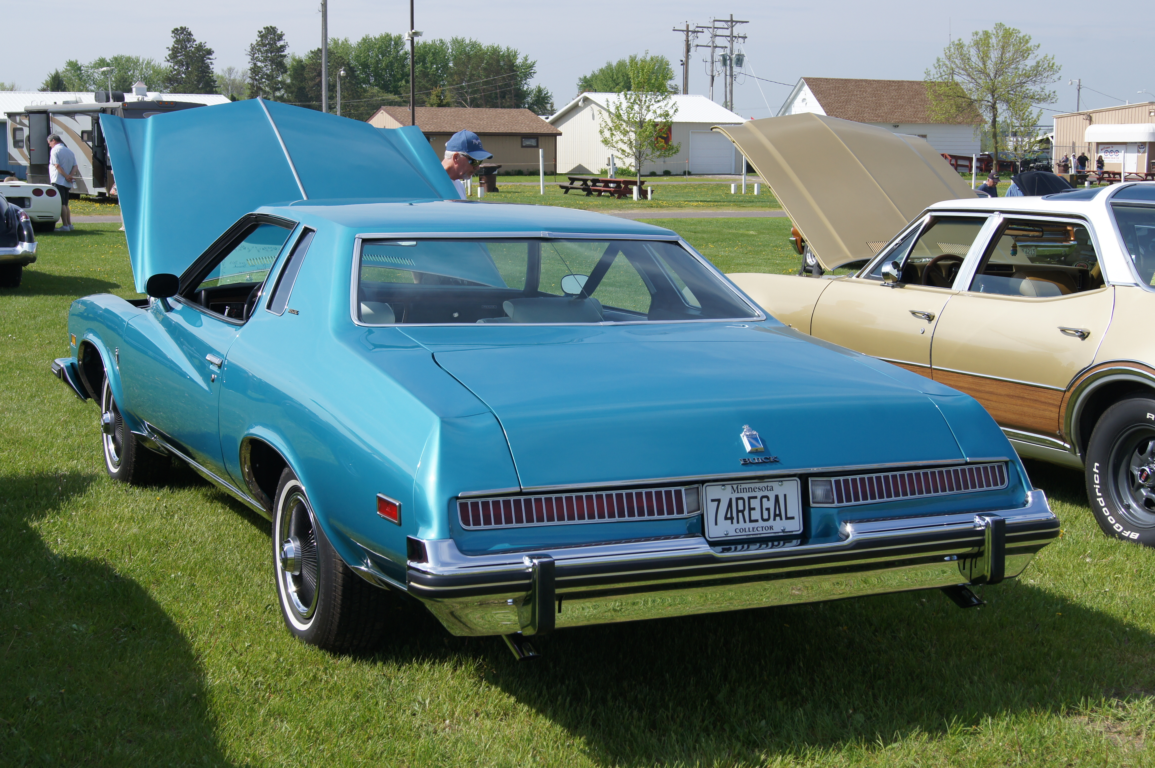 40th ANNUAL GREENBERG MEMORIAL DAY CAR SHOW & SWAP MEET Hosted by: The North Central Chapter Hudson Essex Terraplane Club May 26, 2014 Cambridge Minnesota